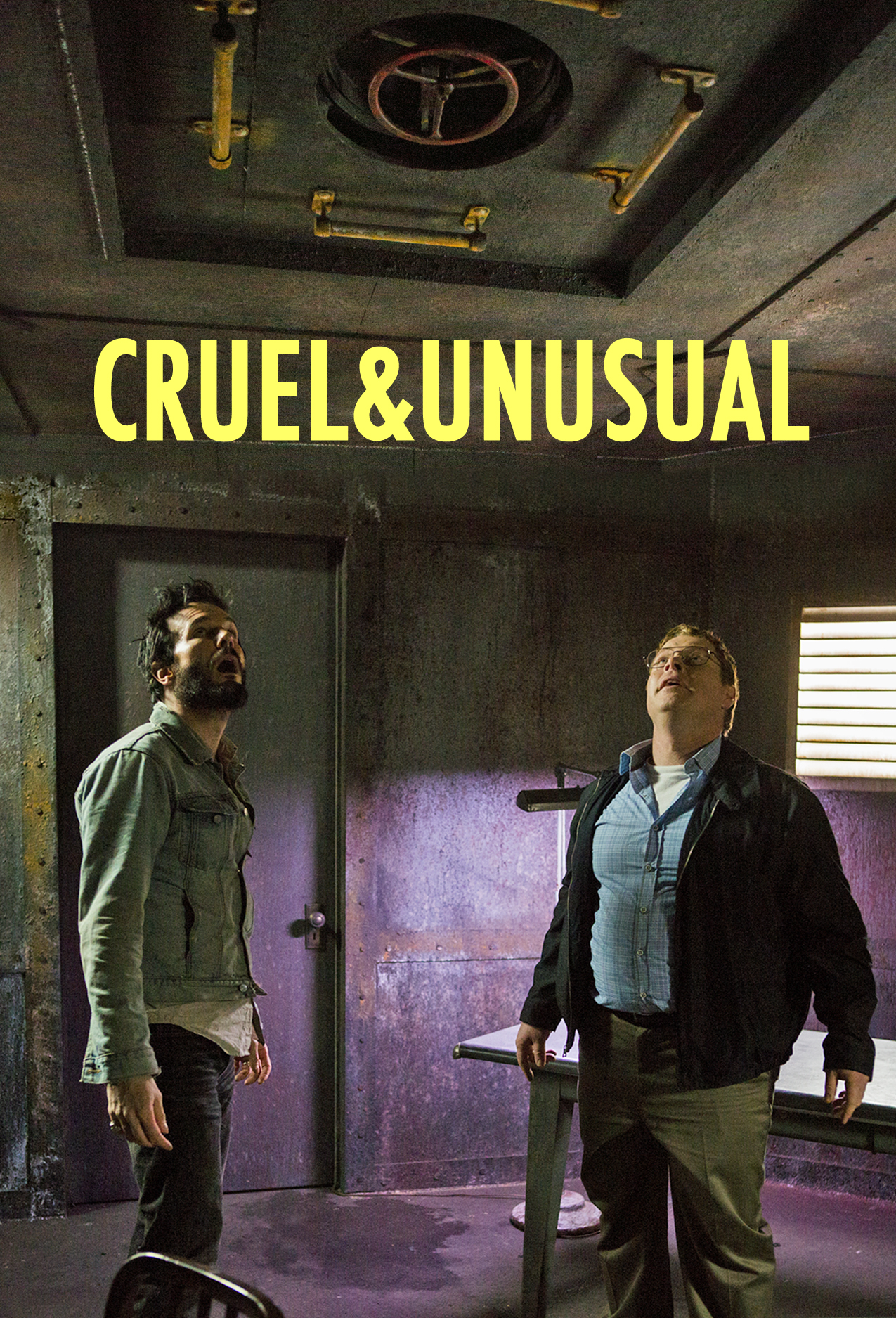 Cruel & Unusual film promotional poster image